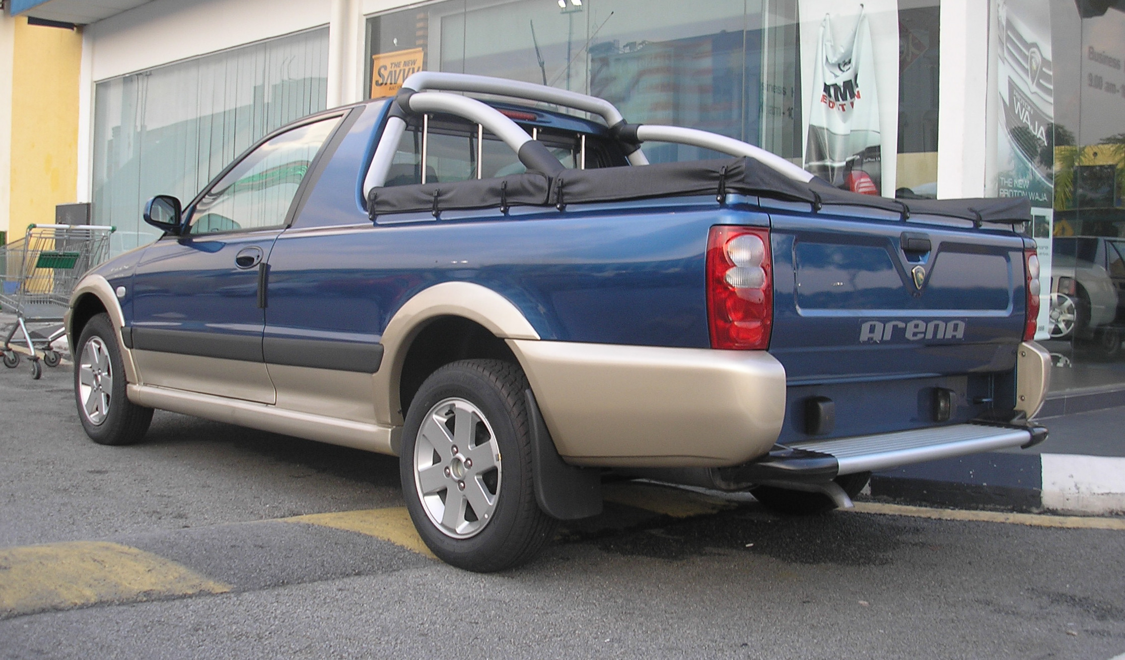 The rear of an unregistered Proton Arena coupe utility in Serdang, Malaysia.